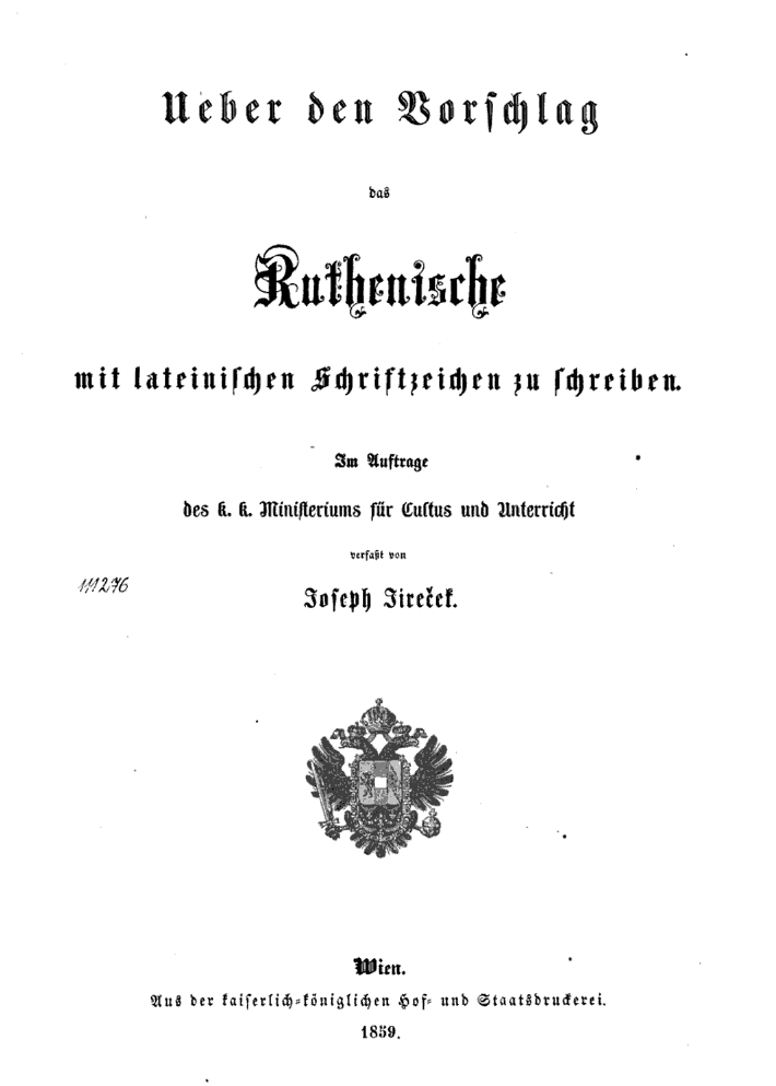 Front page of the book "Über den Vorschlag, das Ruthenische mit lateinischen Schriftzeichen zu schreiben" (1859) by Josef Jireček.